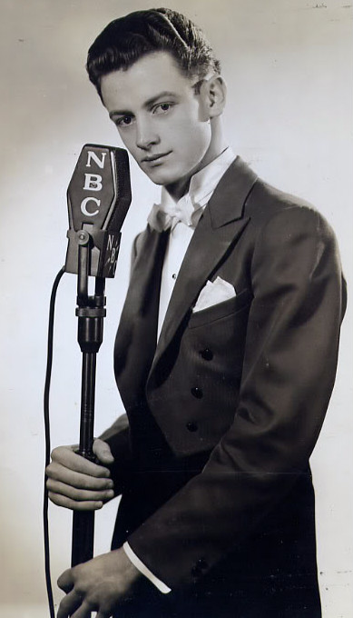 Early publicity photo of Art Carney.